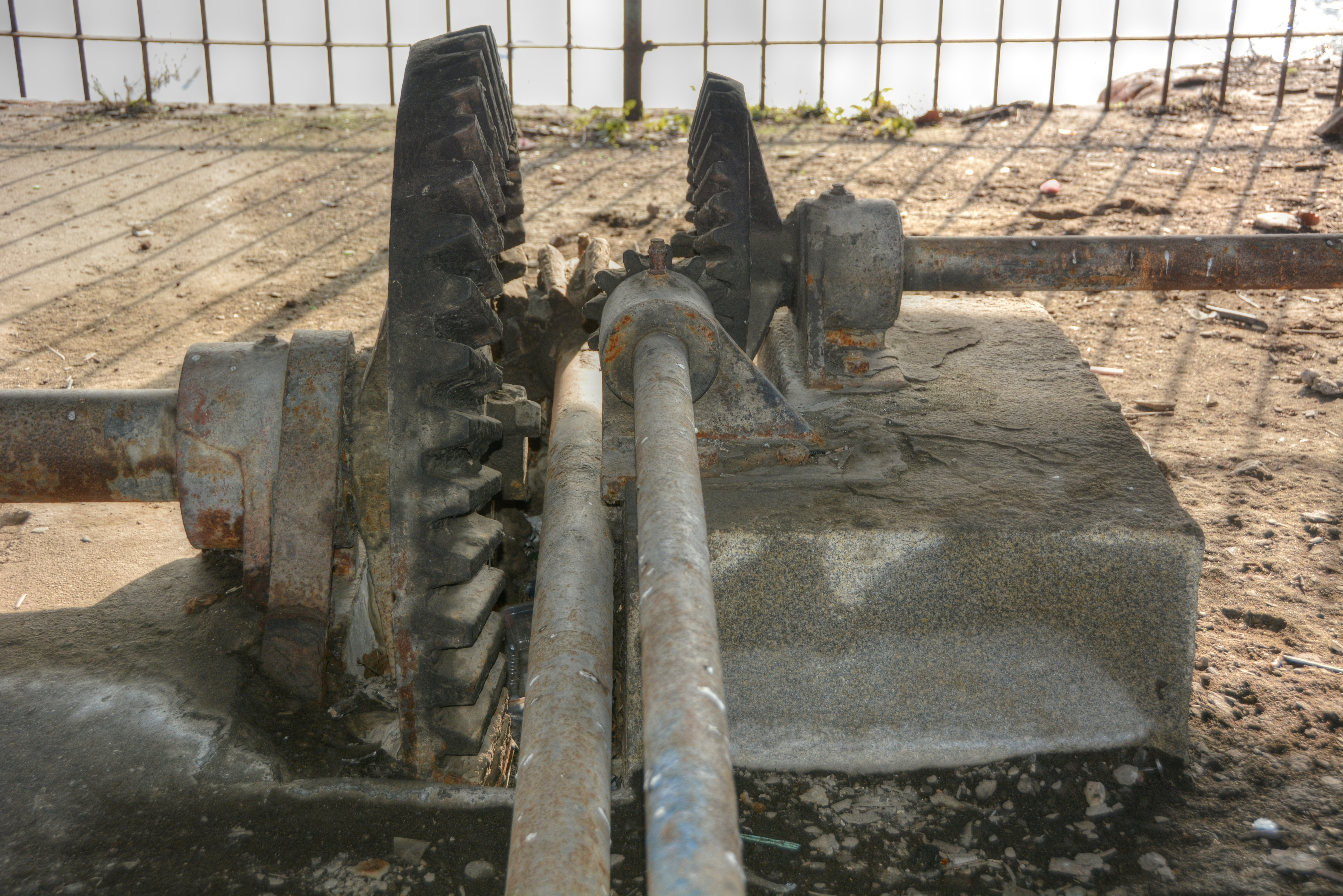 Teufelsbrücke ("Devil's Bridge"), Mannheim - shafts and bevel gear drive